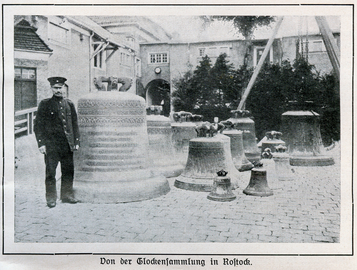 Church bells of Rostock before destroying in World War I 1917